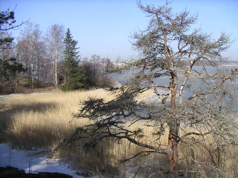 A view from bird observation tower in Kivinokka, Herttoniemi, Helsinki, Finland